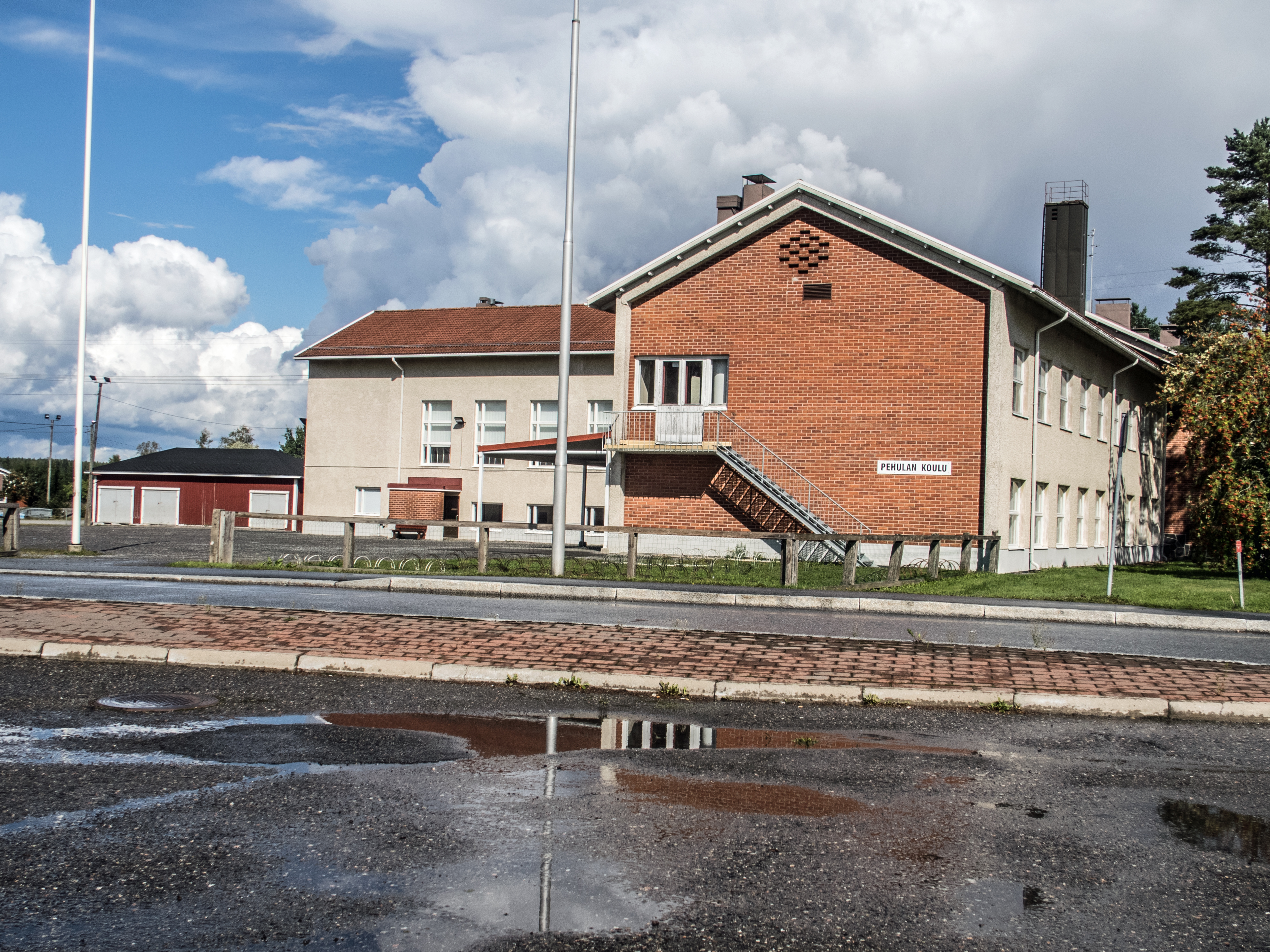 Pehula elementary school